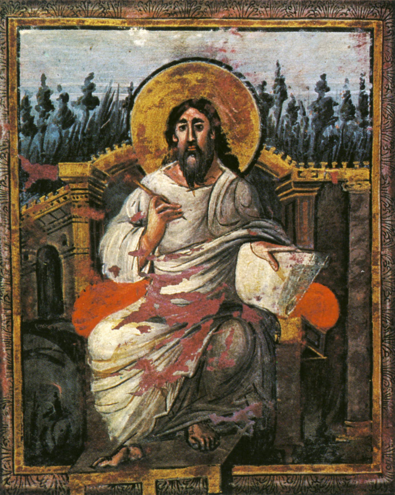 St. John, from the Coronation Gospels. 32.4 x 24.9 cm. Weltliche Schatzkammer, Vienna.